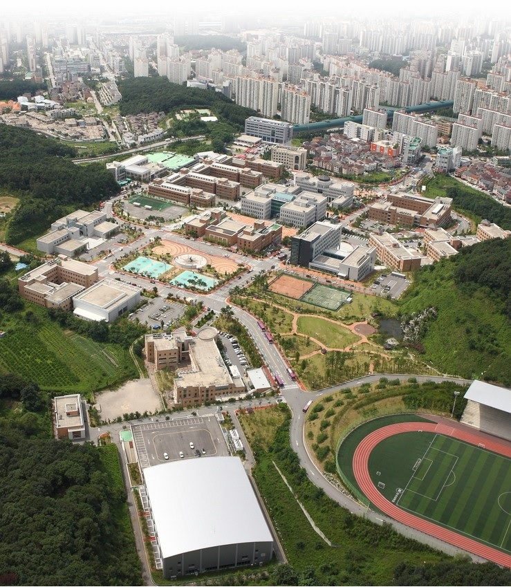 Foothills of Beophwa, Foreground of Dankook University(jukjeon)